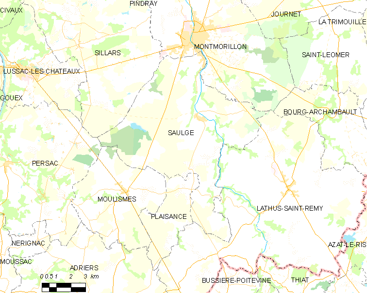 Map of French municipality Saulgé